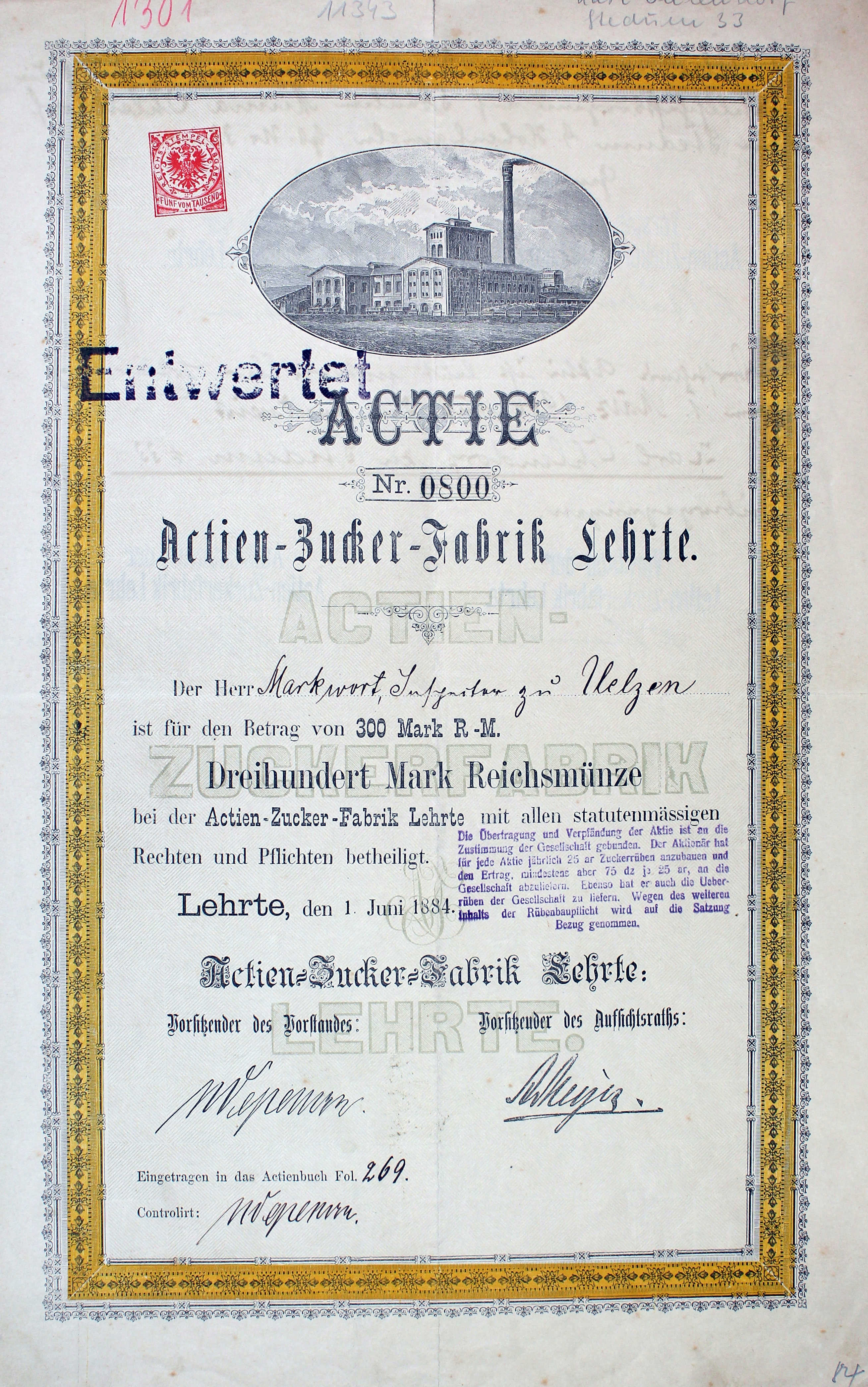 Share of the Actien-Zucker-Fabrik Lehrte, issued 1. June 1884